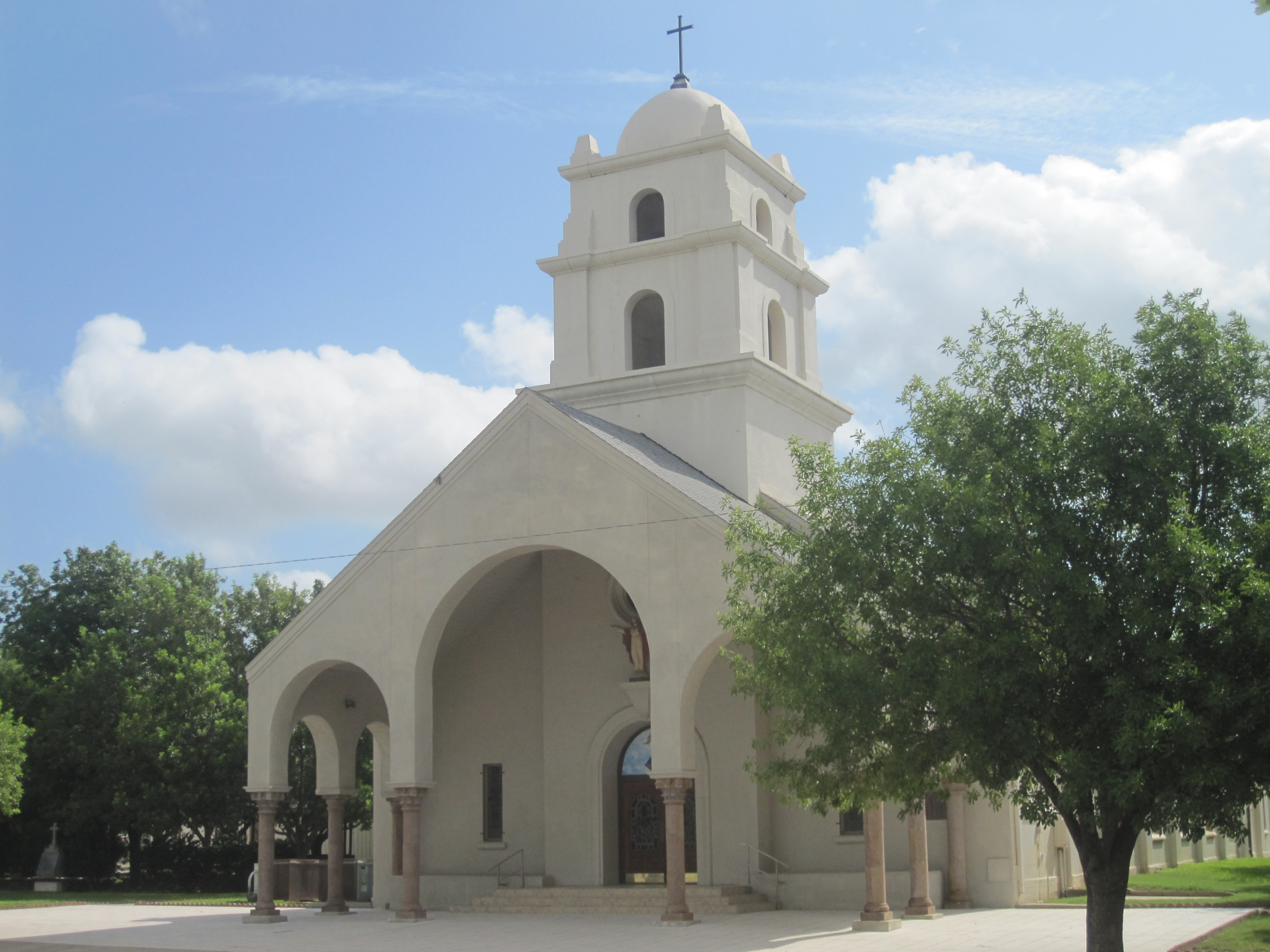 I took photo with Canon camera in Crystal City, TX.